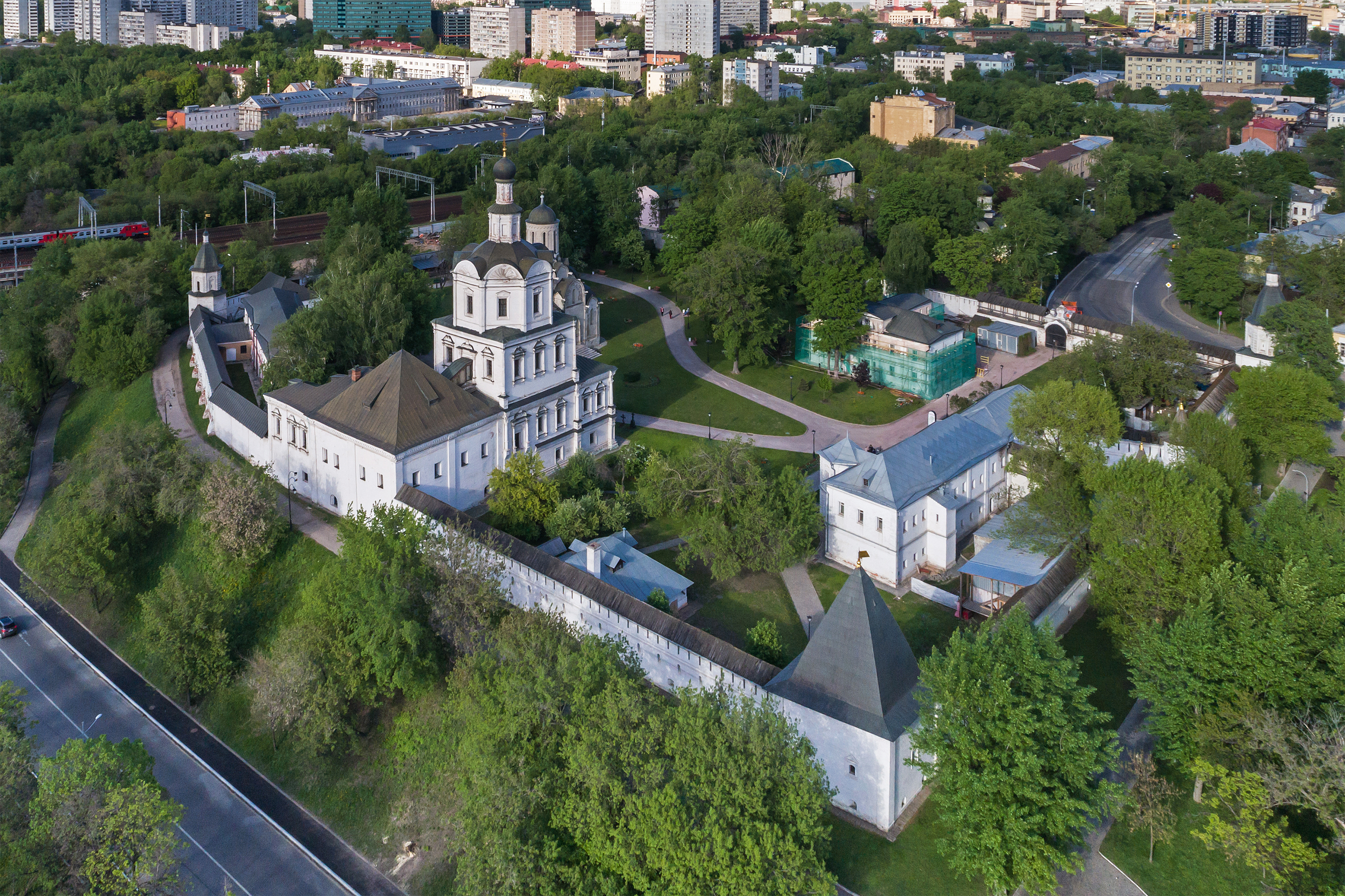 Aerial photo of Andronikov Monastery in Moscow (Russia).